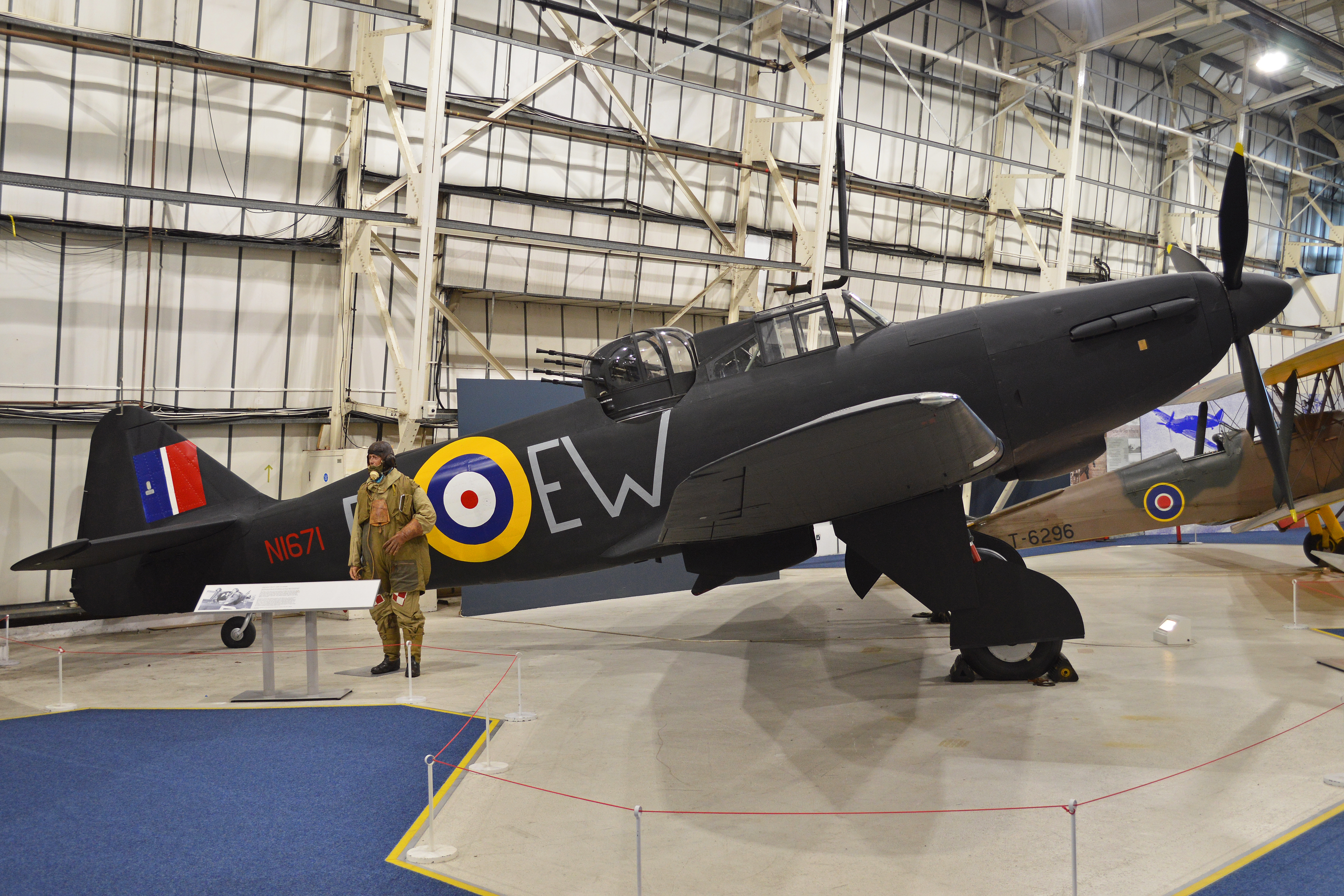 This is the sole surviving complete Defiant . It was saved by the AHB (Air Historical Branch) in 1944 and stored until 1958 went it began making static appearances. Repainted in to a night-fighter scheme in 1967. Went on display at Hendon when the museum opened in 1972 and moved to the Battle of Britain Hall in 1978 and was there until removed for restoration in 2009. The restoration was carried out to an extremely high standard by MAPS (Medway Aircraft Preservation Society) and the aircraft returned to Hendon in early 2013, now in an accurate and genuine 307 (Polish)sqn colour scheme. This aircraft served with 307sqn as both a day fighter and a night fighter and remains on display in the Battle of Britain Hall. RAF Museum, Hendon, London, UK. 22-3-2015